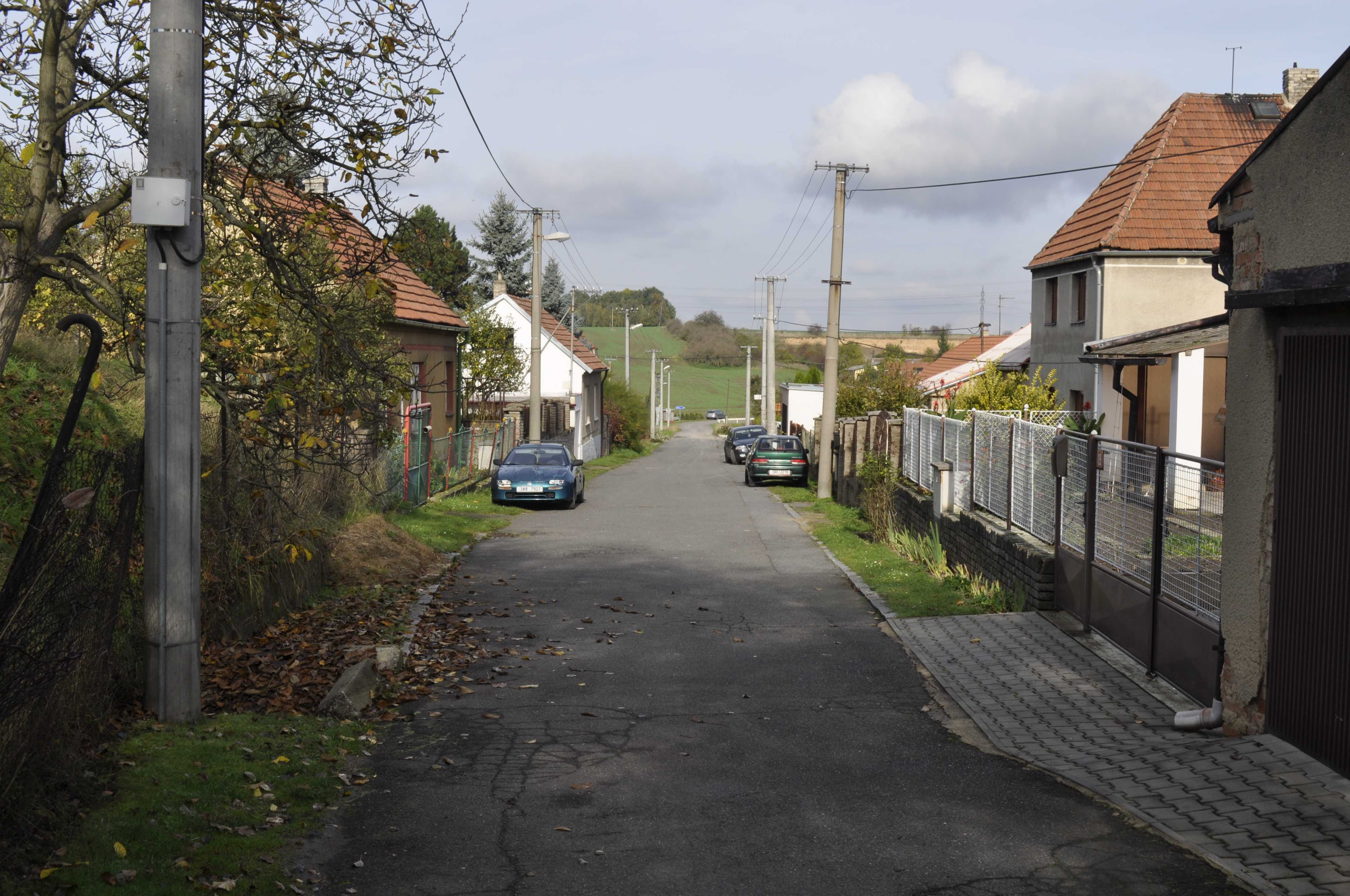 View from the South